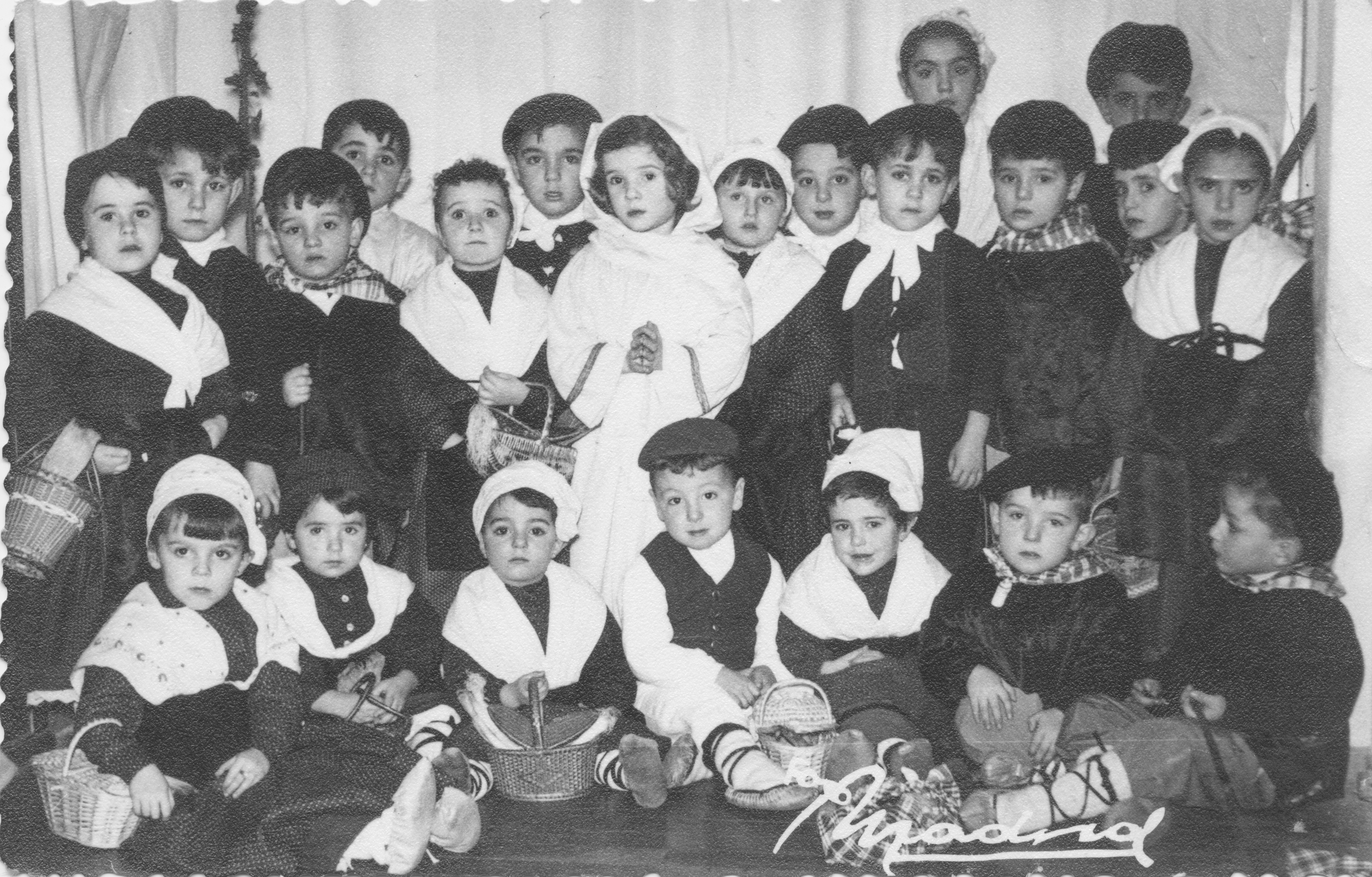 Children of Karkizano ikastola (Basque school) on 1958 Xmas